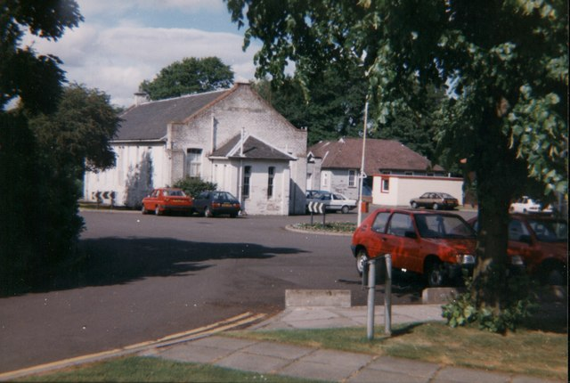 Bellshill Maternity Hospital. The Laboratories - that's Biochemistry and Haematology in the left - occupied the original buildings which were vacated in the 1950s when the "new" hospital was built. The Maternity Services were transferred to Wishaw General in 2001 and the site has since been cleared and is a private housing development.